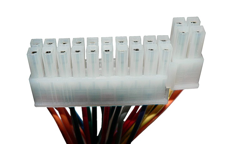 ATX power supply connector